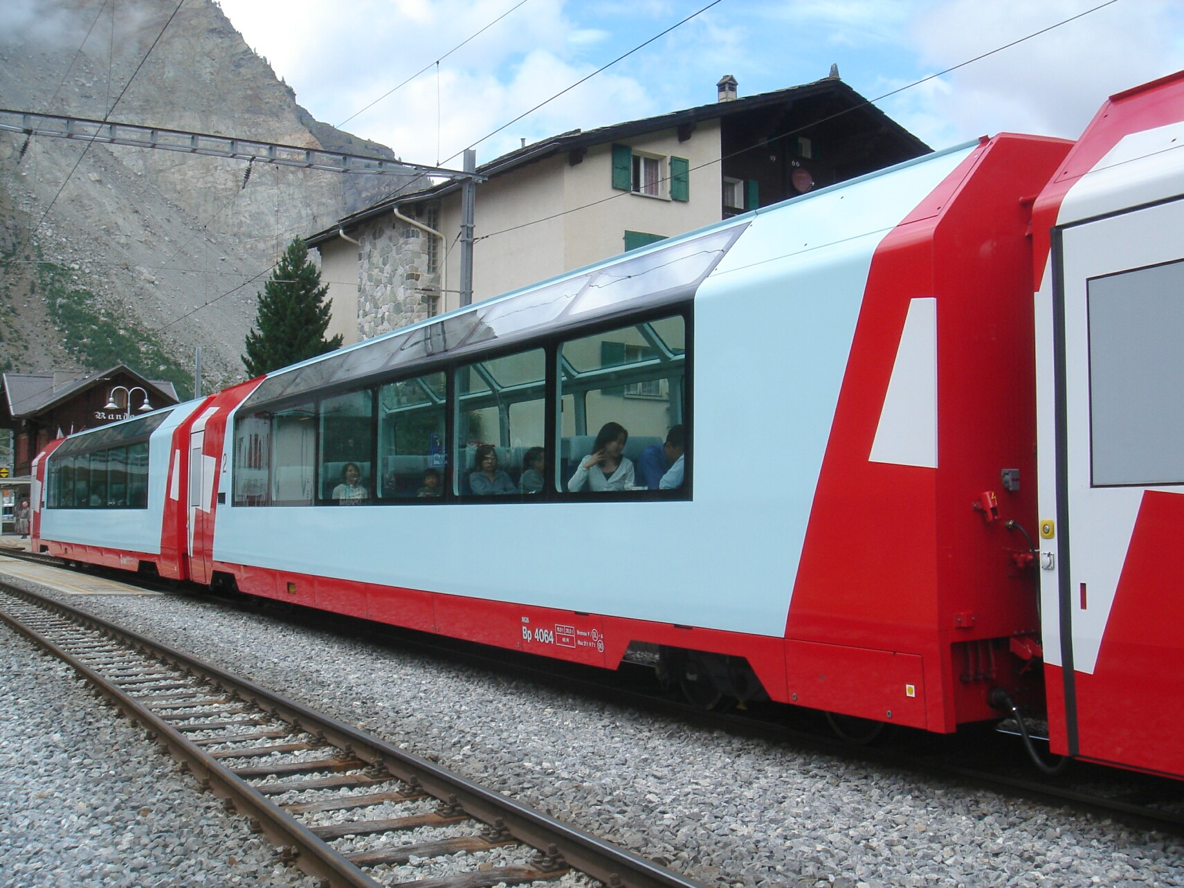 Matterhorn Gotthard Bahn panoramic coach Bp 4066 and 4064, built by Stadler at Randa VS